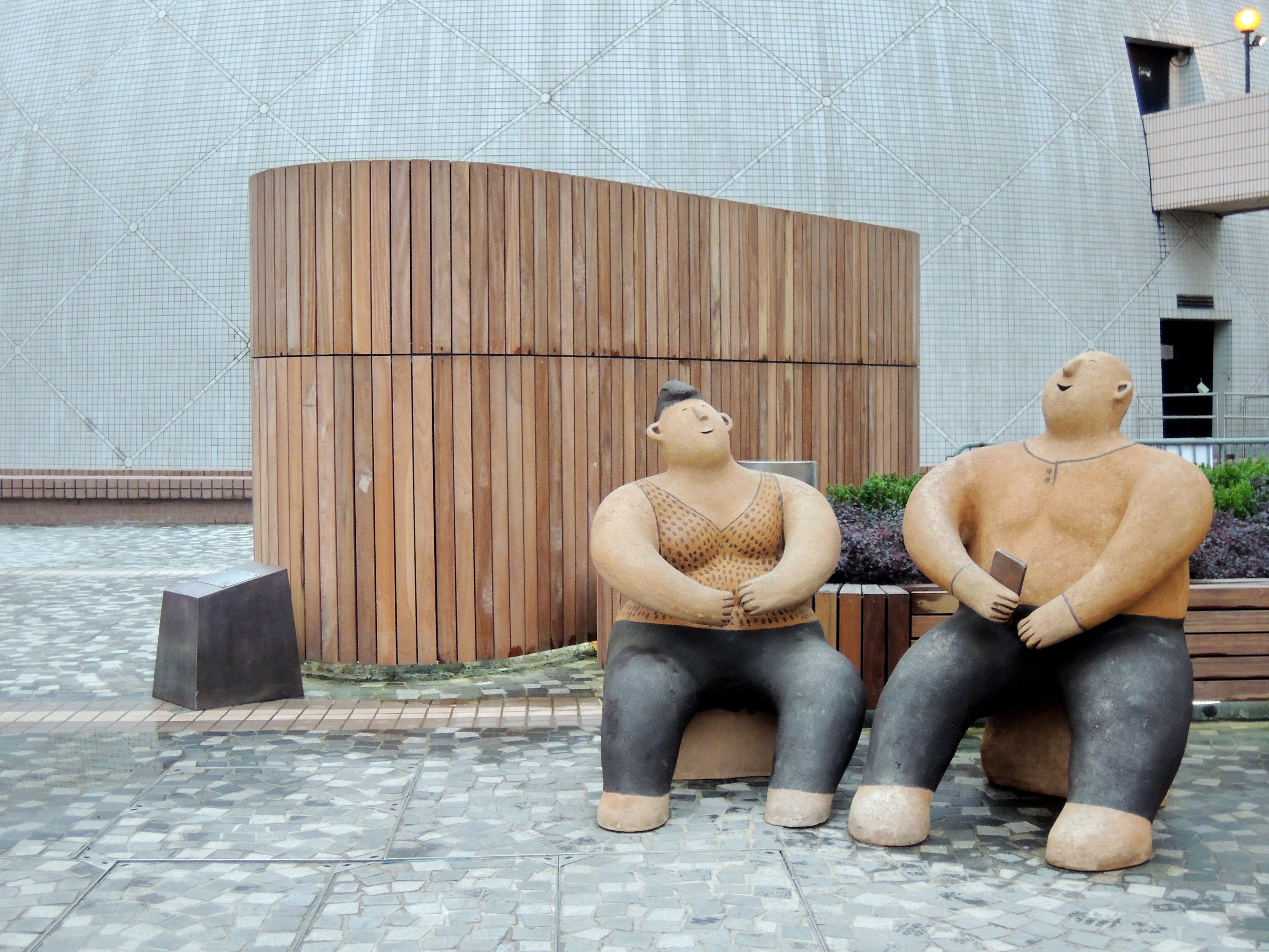 Happy Folks (artist- Rosanna Li) "Heaven, Earth and Man — A Hong Kong Art Exhibition" Art Square at Salisbury Garden, Hong Kong Museum of Art, Kowloon, Hong Kong.